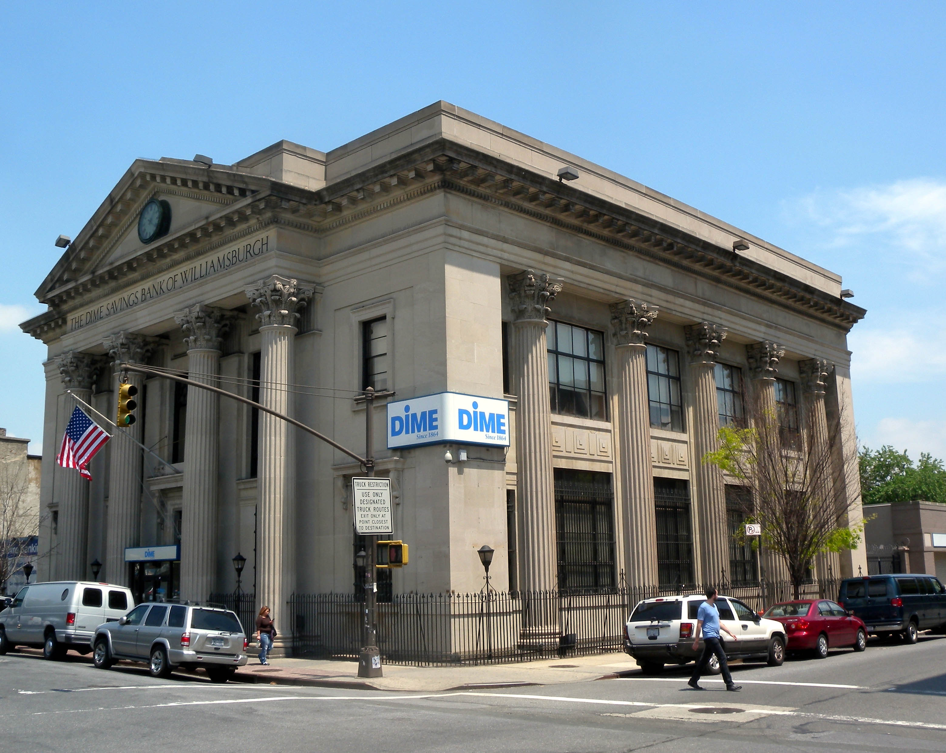 Looking northeast across Havemeyer and S 5th Streets at Dime Savings Bank of Williamsburgh on a sunny midday.